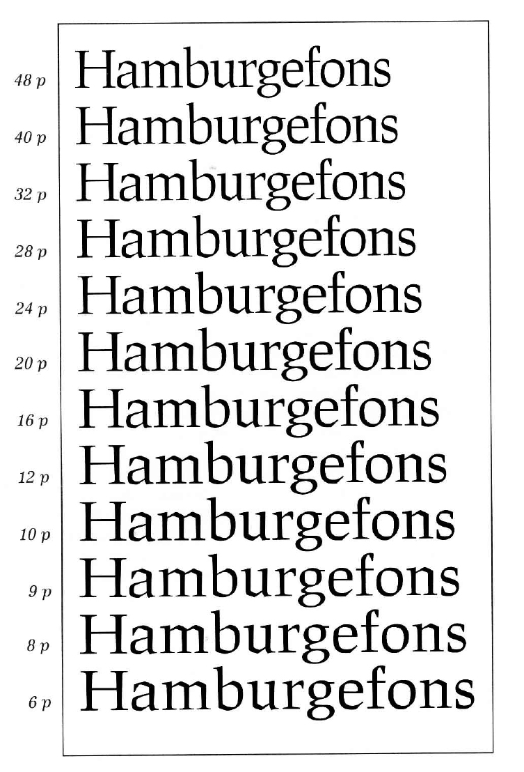 each typesize in a different form